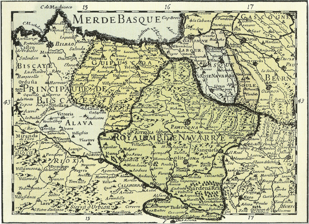 The Basque Country in early 18th century, as depicted by Charles Hubert Alexis Jaillot, French royal geographer